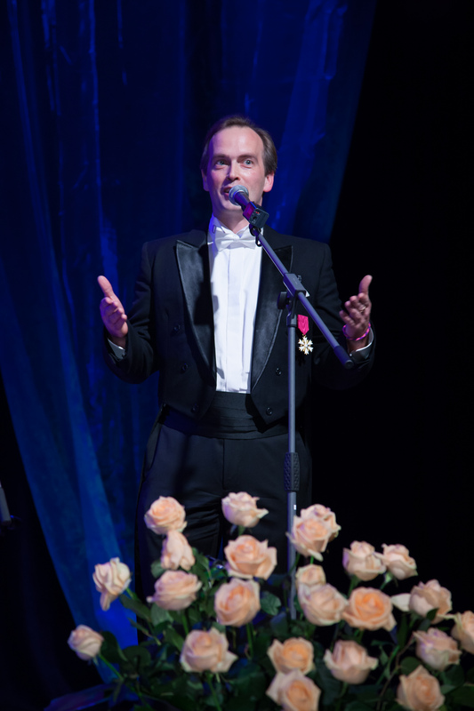 Mart Noorma at the University of Tartu Anniversary Ball 2012